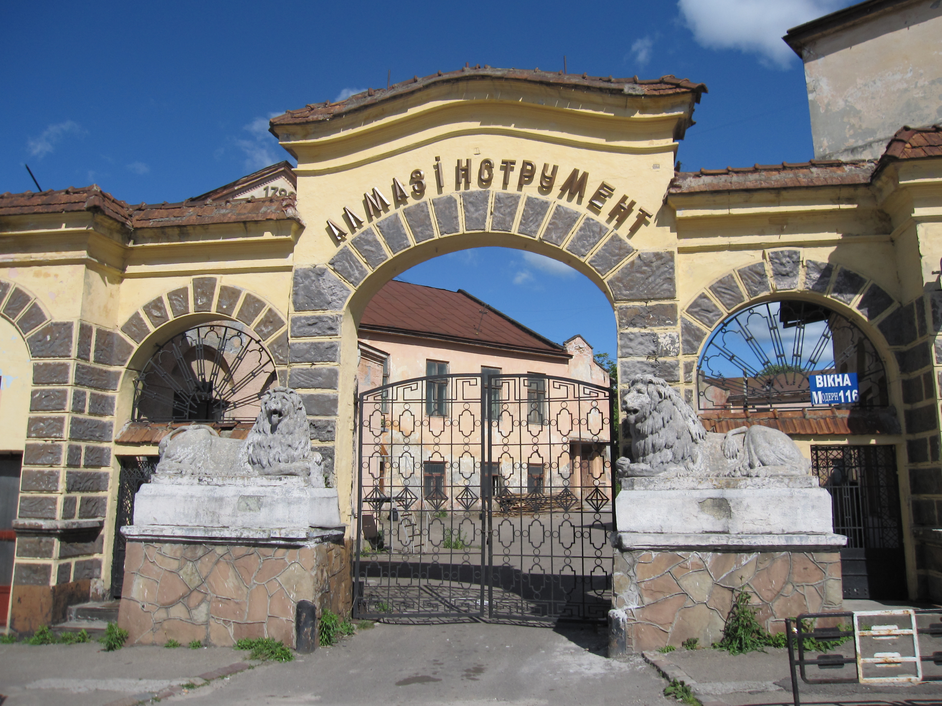 Former factory of J. A. Baczewski at the end of Chmelnicki street in Lviv, Ukraine. Today a factory for abrasives is located there.